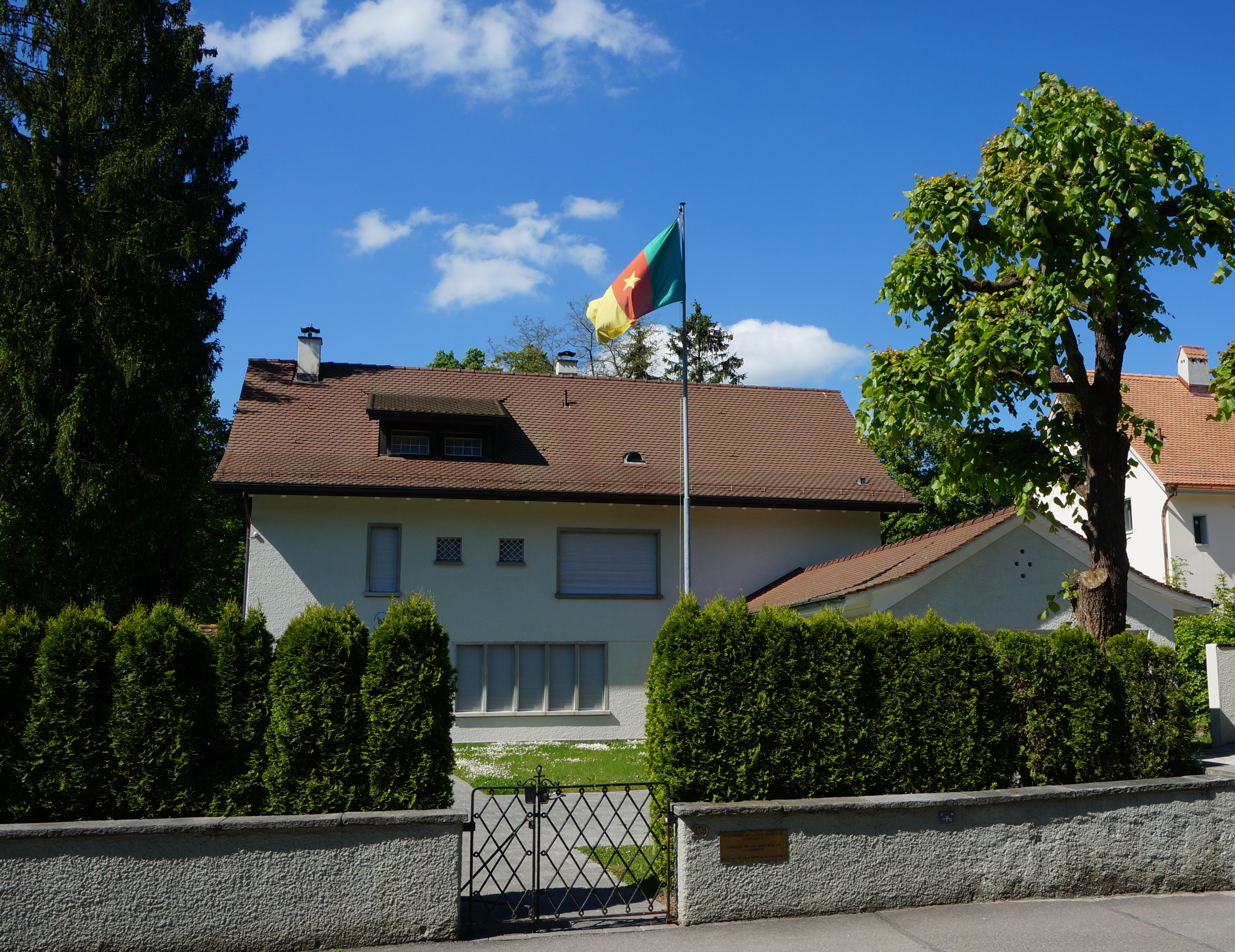 Bern, Brunnadernrain 29. Embassy of Cameroon in Switzerland.